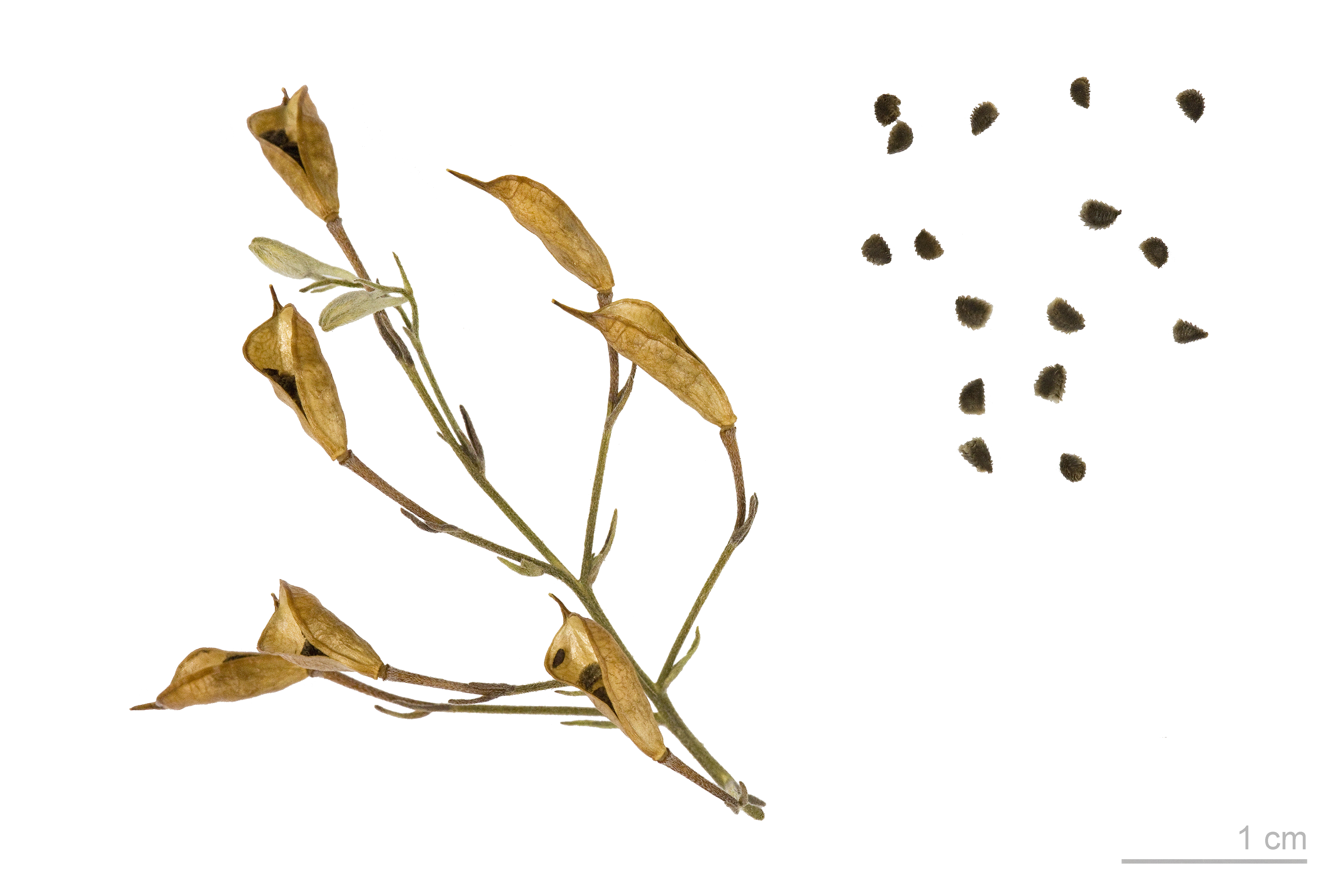 Forking Larkspu , fruits and seeds